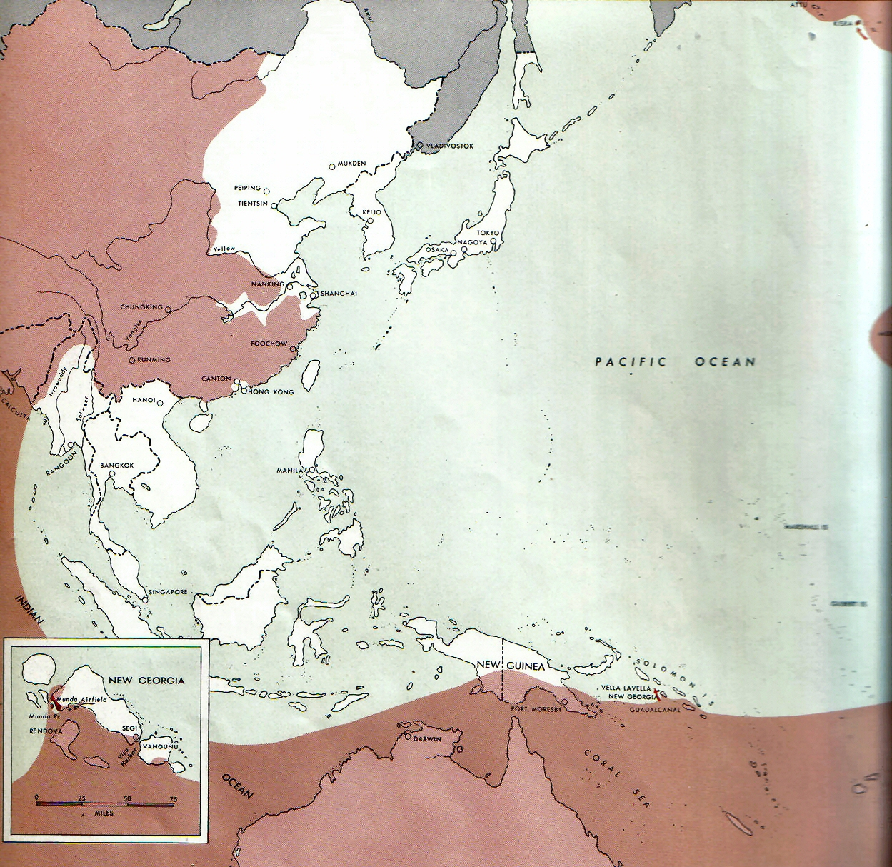 Map of the front against Japan as of 15 Aug 1943: This map is taken from the source "Atlas of the World Battle Fronts in Semimonthly Phases to August 15th 1945: Supplement to The Biennial report of The Chief of Staff of the United States Army July 1, 1943 to June 30 1945 To the Secretary of War". (See Cover, Forward and Map details)